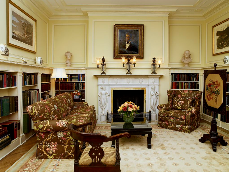 The library at the President's Guest House in Washington, DC, pictured in 2007.